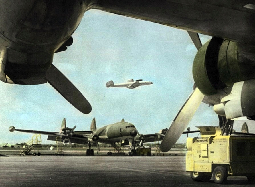 A U.S. Air Force Lockheed EC-121D Warning Star of the 552nd Airborne Early Warning & Control Wingtakes off from Korat Royal Thai Air Force Base, Thailand, in the late 1960s. In the foreground is an EC-121R of the 553rd Reconnaissance Wing.